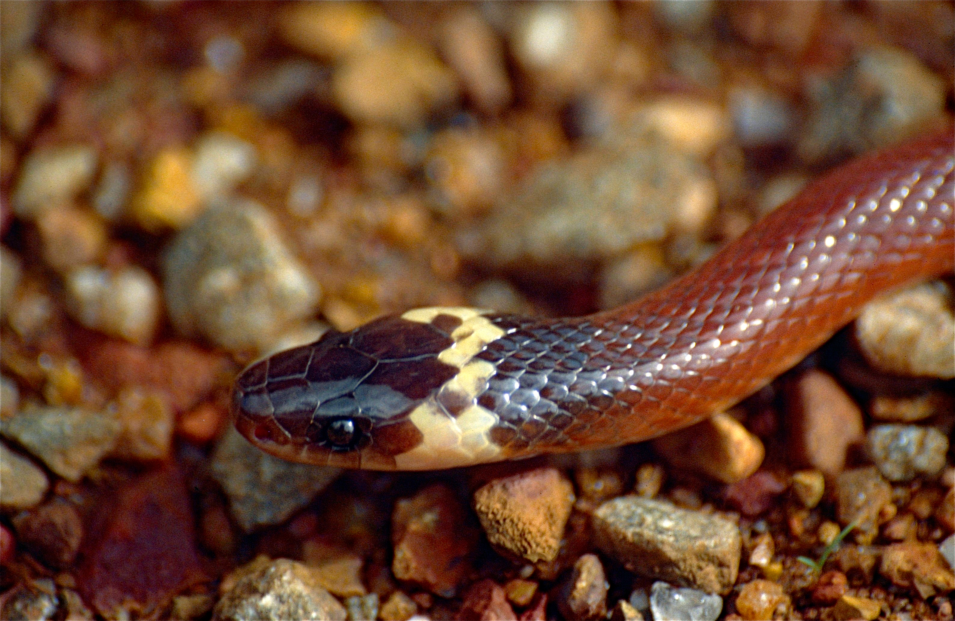 Route de Regina, Guyane, FRANCE Scanned Slide from 2000